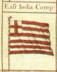 British East India Company flag from Flag Chart published by B. Lens c. 1700.